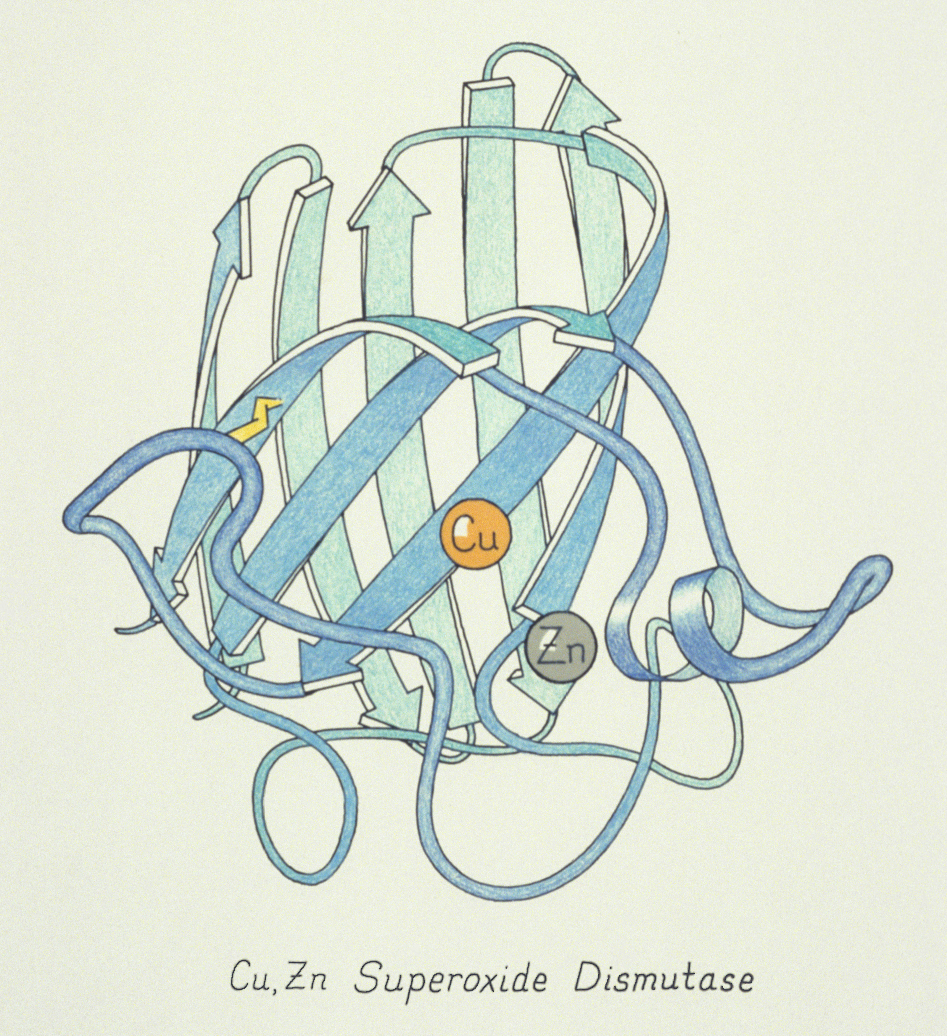 Ribbon diagram of Cu,Zn superoxide dismutase subunit from the first crystal structure (PDB file 2sod). Cu,Zn SOD is a Greek key beta-barrel enzyme that protects against damage from the O-- radical. Active-site copper and zinc are labeled, and disulfide is a yellow zigzag. Hand drawn by Jane Richardson in 1981 and colored with cut-out film on the metals and colored pencils on the ribbons, to match the blue and blue-green colors given to the crystal by the copper site. Photographed and cleaned in 2002.